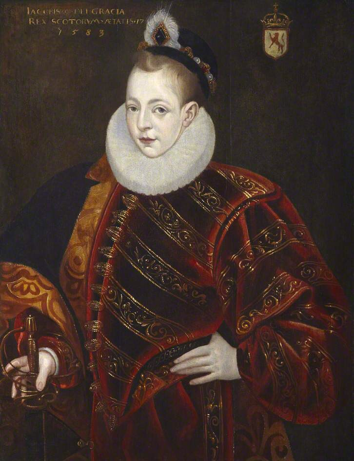 Portrait of James VI of Scotland, later James I of Engliand (1566-1625).